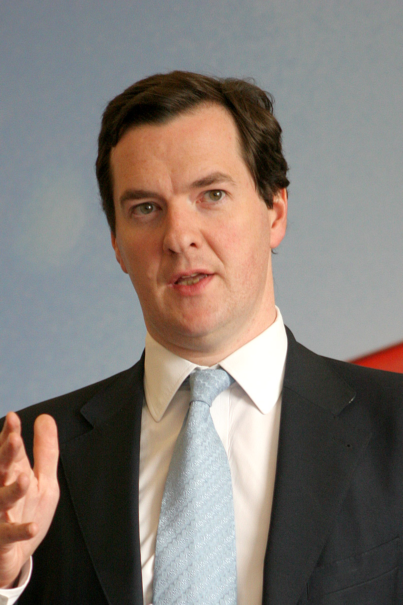 George Osborne MP, pictured speaking on the launch of the Conservative Party manifesto for the 2009 European Parliament elections, at Keele University. (805x1207 px, 283,711 bytes)